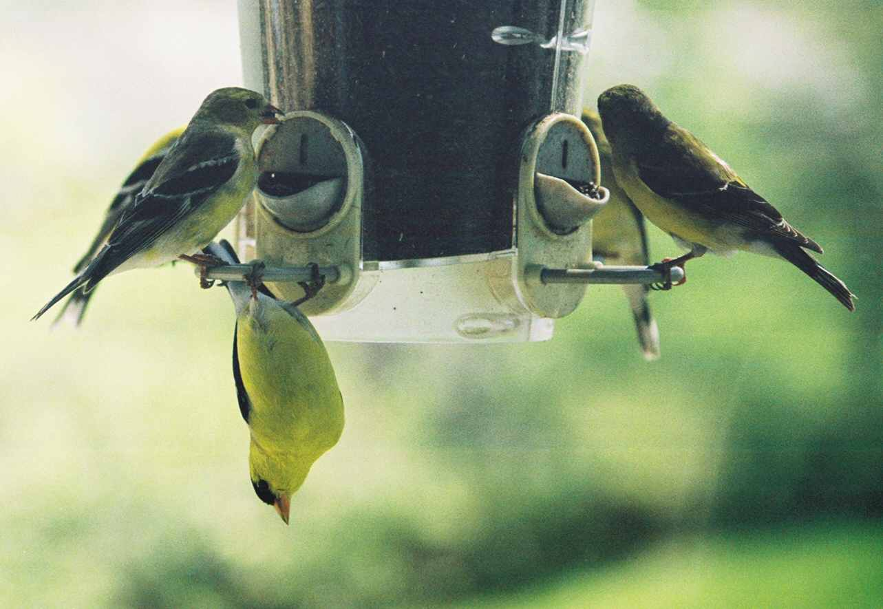 Male and Female American Gold Finches at a feeder